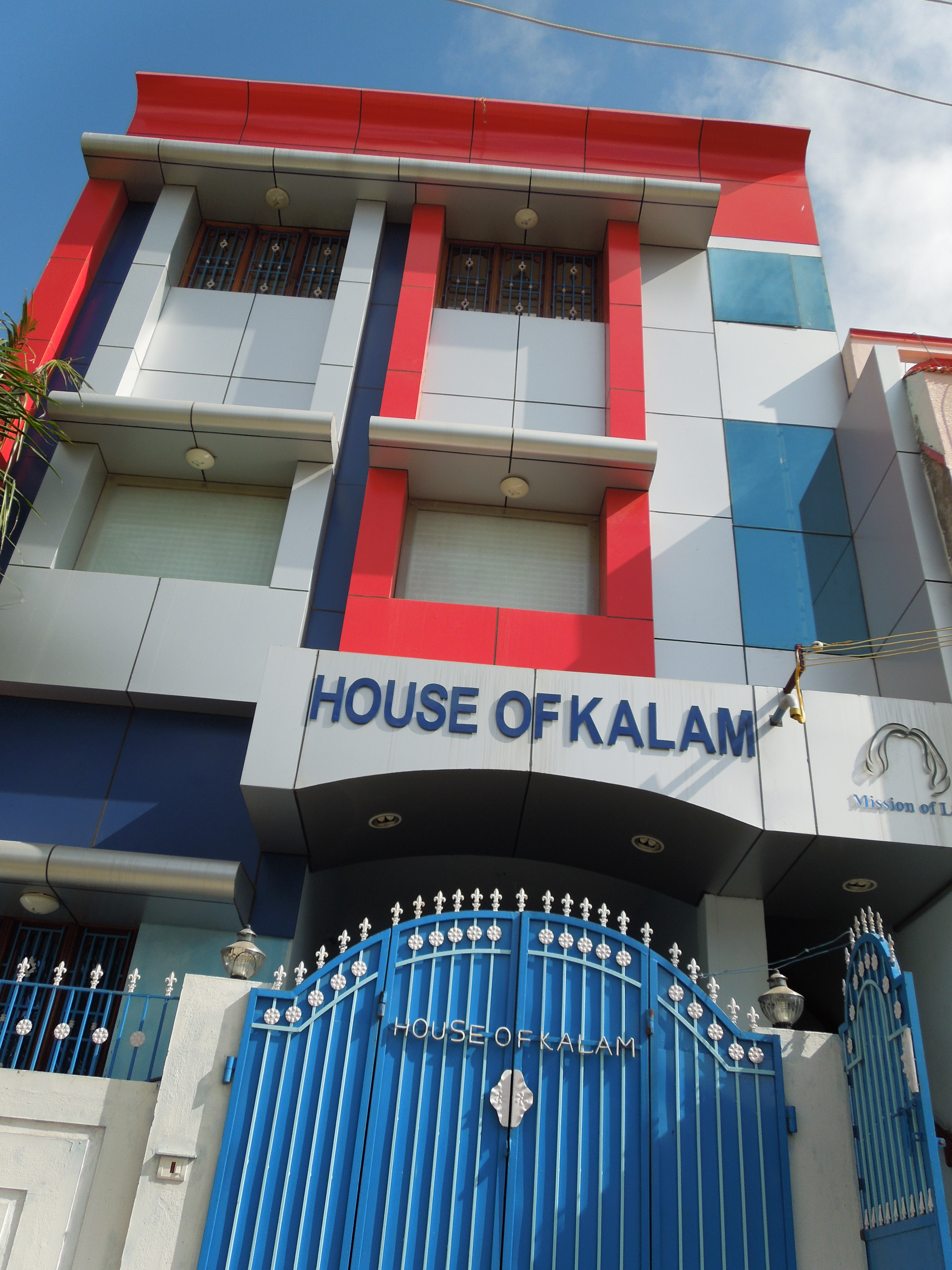 House of Dr. APJ Abdul Kalam in Rameswaram